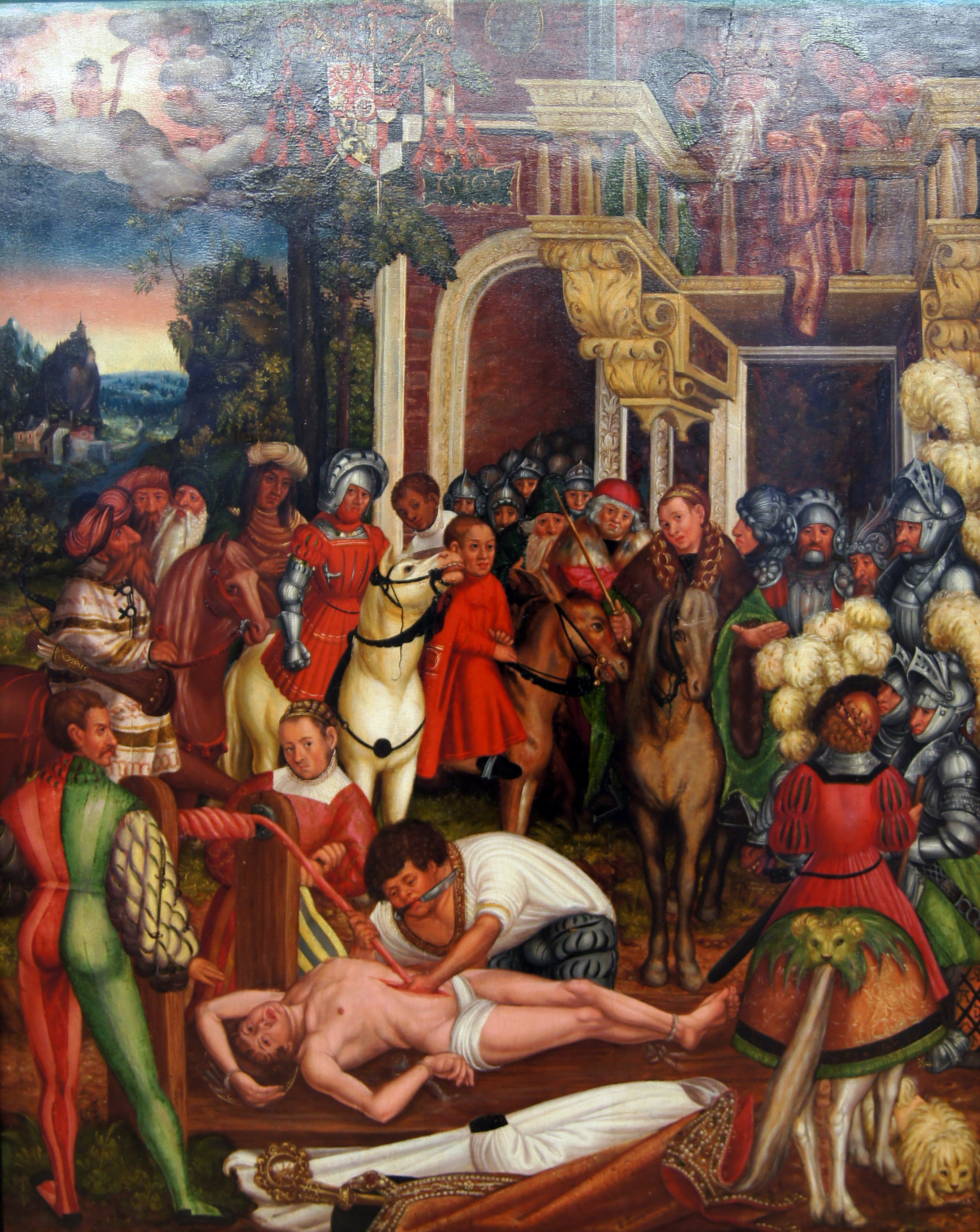 St Erasmus, Bishop of Antiochia (d. 303) was arrested and martyred on numerous occasions during the Diocletianic Persecution of the Christians. One of the torturous acts inflicted upon him consisted of winding his intestines around a winch. This martyrdom is seldom depicted more frequently the intestines wound on a winch are shown beside the bishop as an attribute. In the sky Christ appears as the Man of Sorrows.